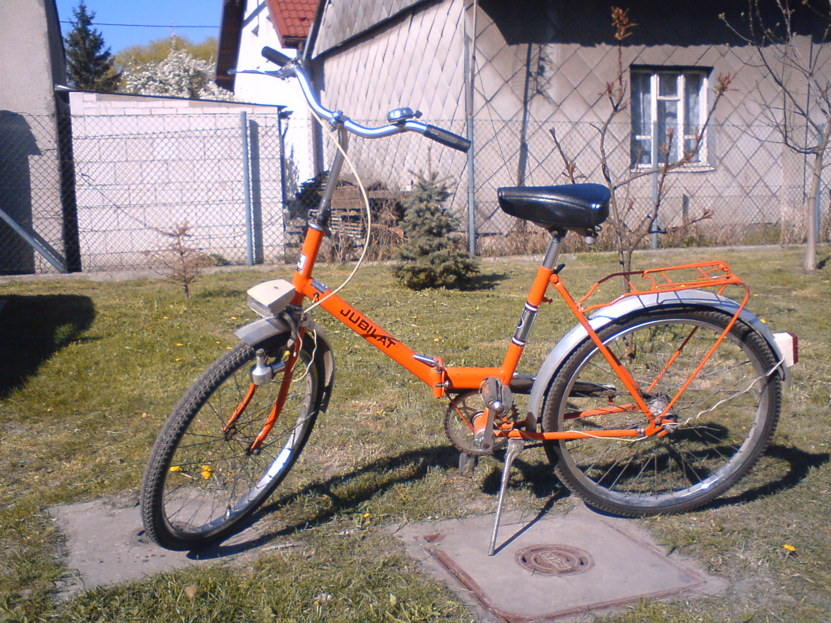 Romet Jubilat - polish bicycle.